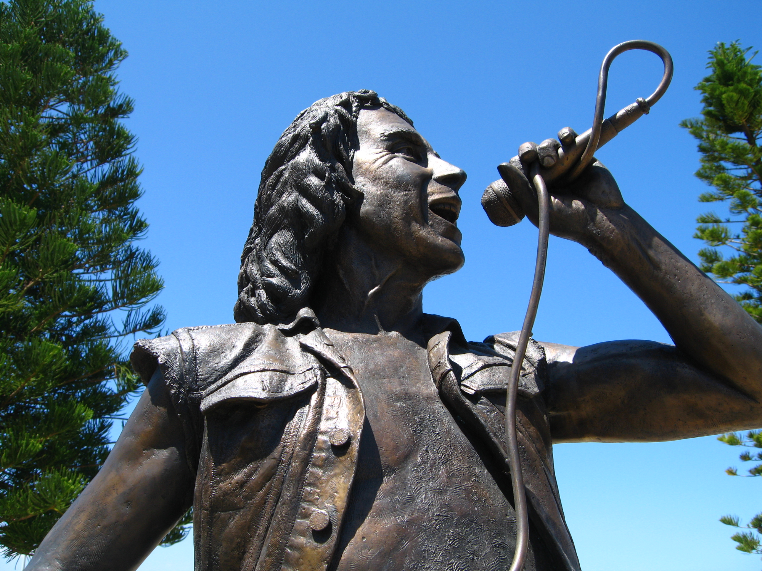 Statue of Bon Scott by Greg James. Fisherman's Wharf, Fremantle, Western Australia.